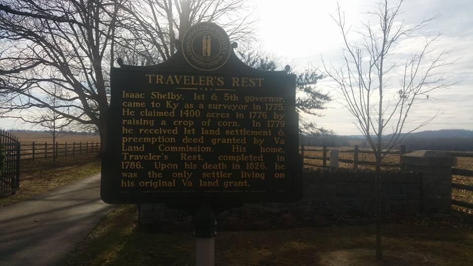 Kentucky Historical Marker #2233 at the entrance to Isaac Shelby Cemetery. Obverse: "Isaac Shelby, 1st & 5th governor, came to Ky. as a surveyor in 1775. He claimed 1400 acres in 1776 by raising a crop of corn. In 1779 he received 1st land settlement & preemption deed granted by Va. Land Commission. His home, Traveler's Rest, completed in 1786. Upon his death in 1826, he was the only settler living on his original Va. land grant." Reverse: "Settled 1776. This property was placed on the National Register of Historic Places in 1976 by the United States Department of the Interior."